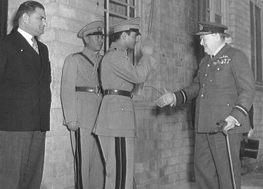 The Shah of Iran saluting Winston Churchill on the occasion of Churchill's 69th birthday at the close of the Tripartite Conference of Tehran, November 1943. On the far left is Ali Soheili, serving his second term as Prime Minister of Iran. The picture was taken by the Iranian press. Churchill is shown wearing his honorary air commodore's uniform.